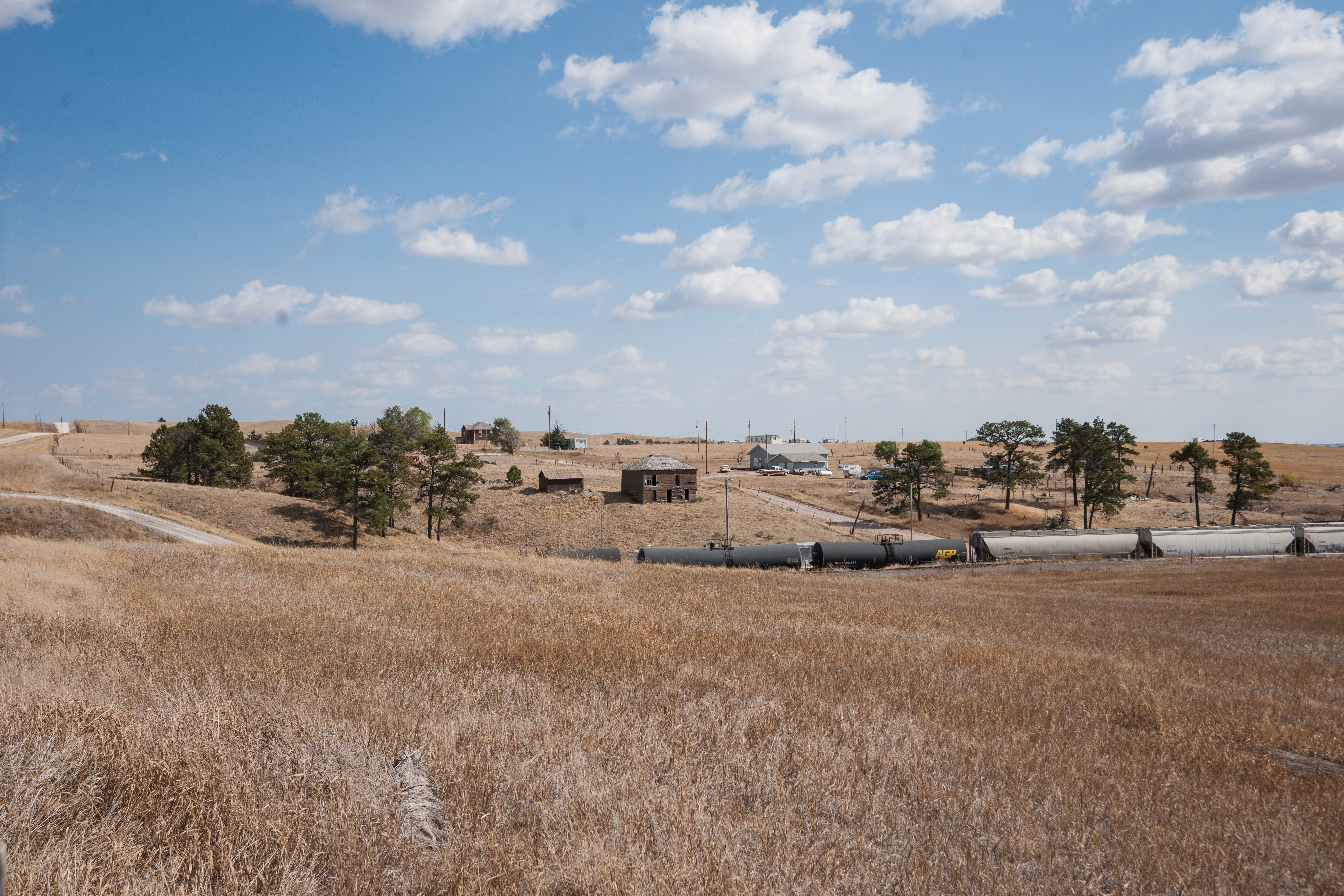 From